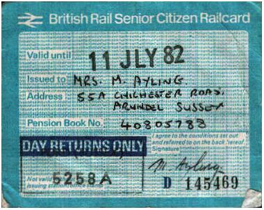 Pre-APTIS Senior Citizens Railcard (CDR only version). Scanned from my own collection.